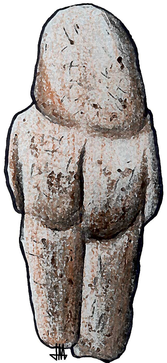 The so-called Venus of Tan-Tan is a pebble found in Morocco. It is 6 centimeters long and has been claimed as a possible "figurine", gender indeterminate and headless, dated between 300,000 and 500,000 BCE. It and its contemporary, the Venus of Berekhat Ram, might be the earliest representations of the human form.